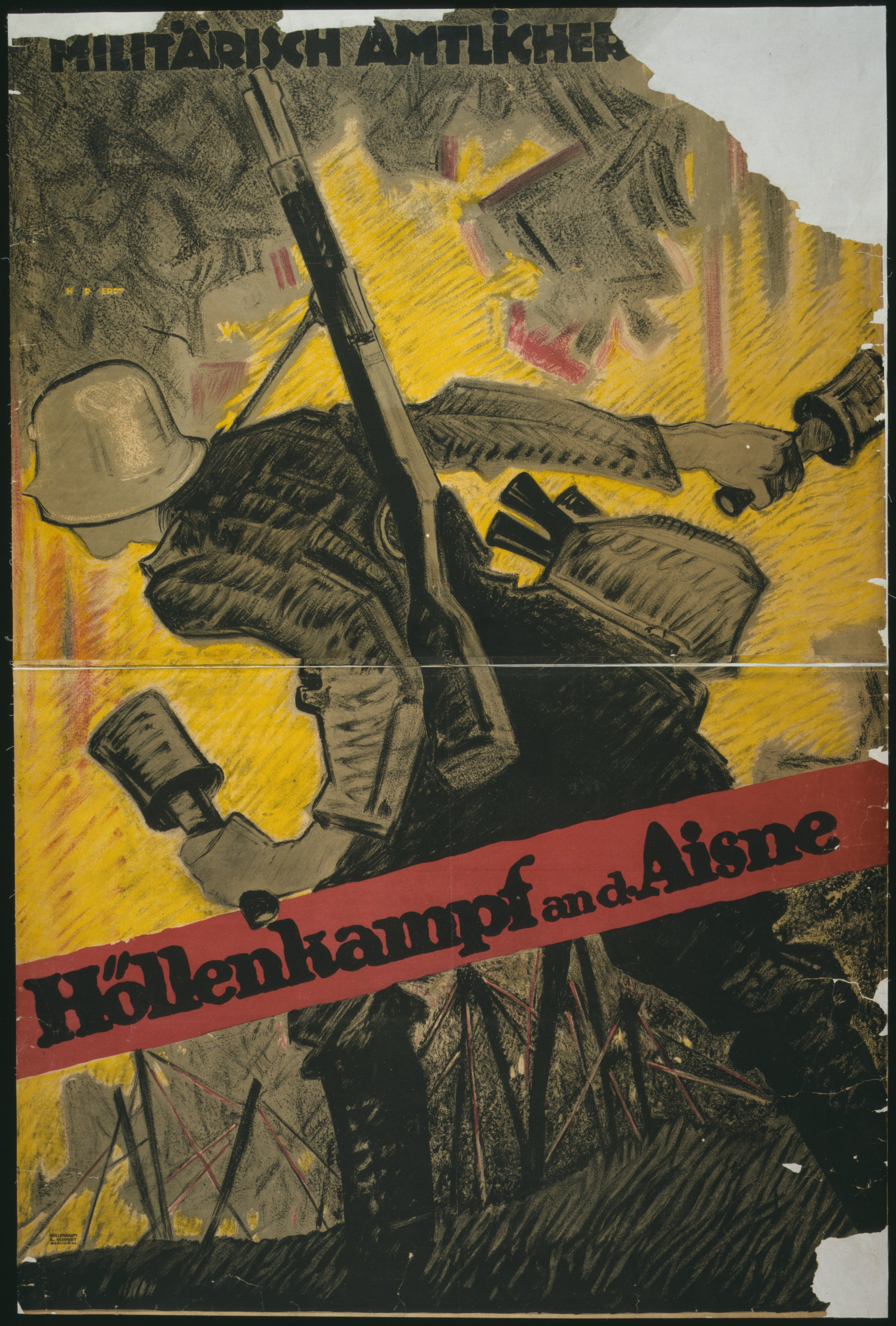 Hell fight on the Aisne river. Poster shows a side view of a German soldier in battle. His rifle is slung over his shoulder and he has grenades in each hand; a bag of grenades also hangs from his shoulder. Flames(?) surround him. The reader is invited to see "Höllenkampf an d. Aisne", a "Militärisch Amtlicher (Film)" (official military film) about the battle on the Aisne. Creator: Hans Rudi Erdt, 1883-1914. REPOSITORY: Library of Congress Prints and Photographs Division Washington, D.C. 20540 USA.